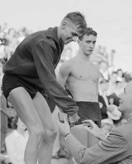 D Hawkins (winner) and other athletes on the podium at an awards ceremony during the 1950 British Empire Games, photographed in February 1950 by an Evening Post photographer.